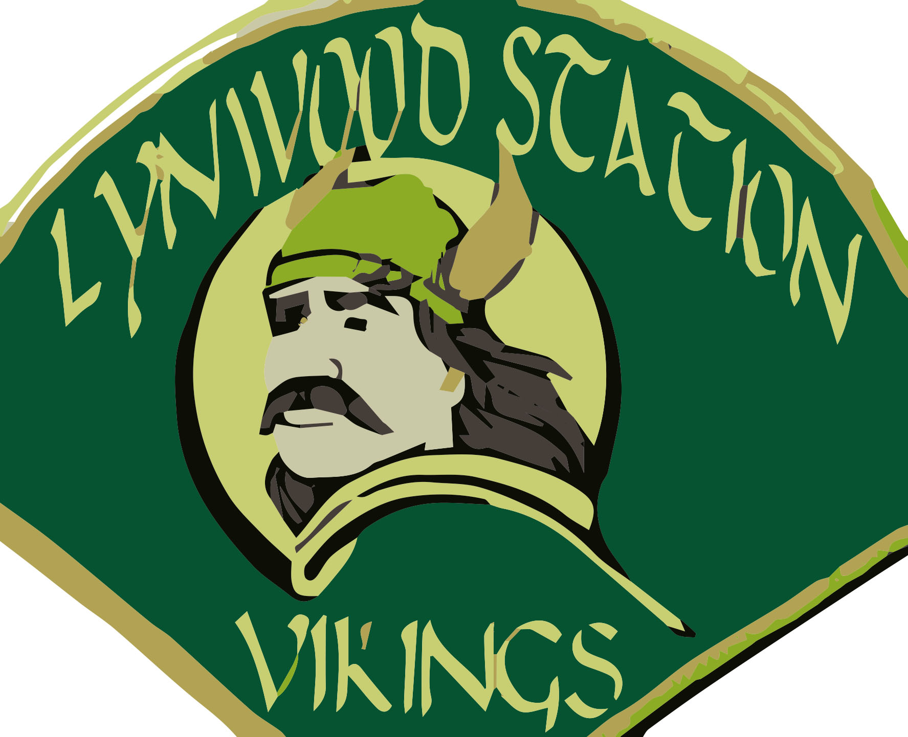 Logo of the LAPD Lynwood Viking gang.